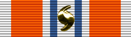 United States Coast Guard Presidential Unit Citation issed to respondents to Hurricane Katrina